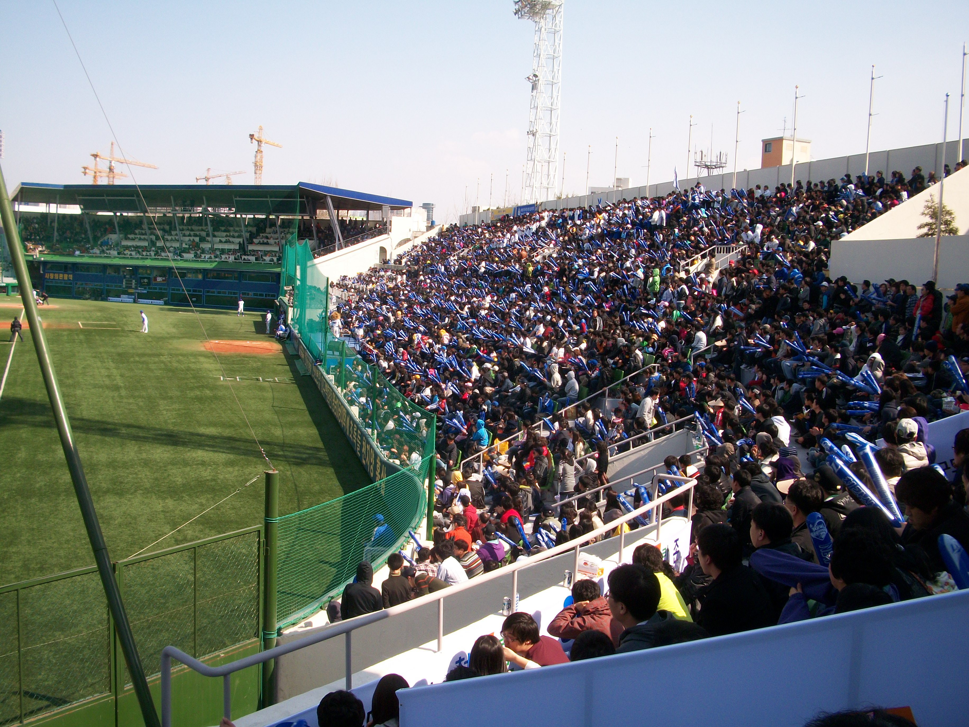 Samsung Lions vs. LG Twins